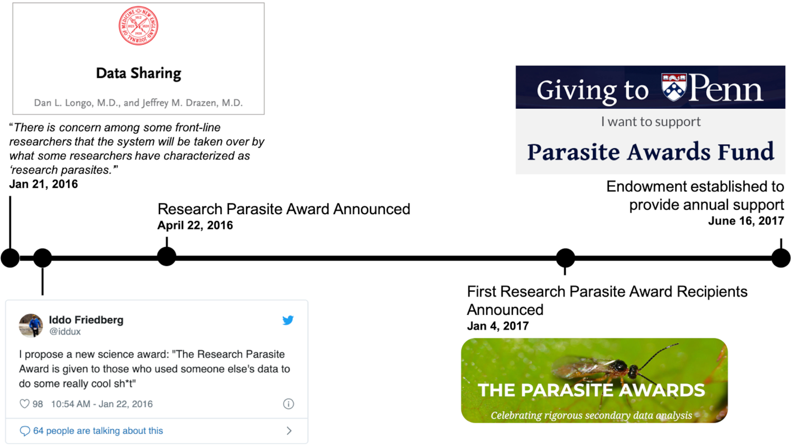 Timeline of the creation of the Research Parasite Award, which recognizes exemplary data reuse, considering in particular that the ideal parasite does not kill its host. Taken from "Data detectives, self-love, and humility: a research parasite's perspective" by Claire Duvallet.